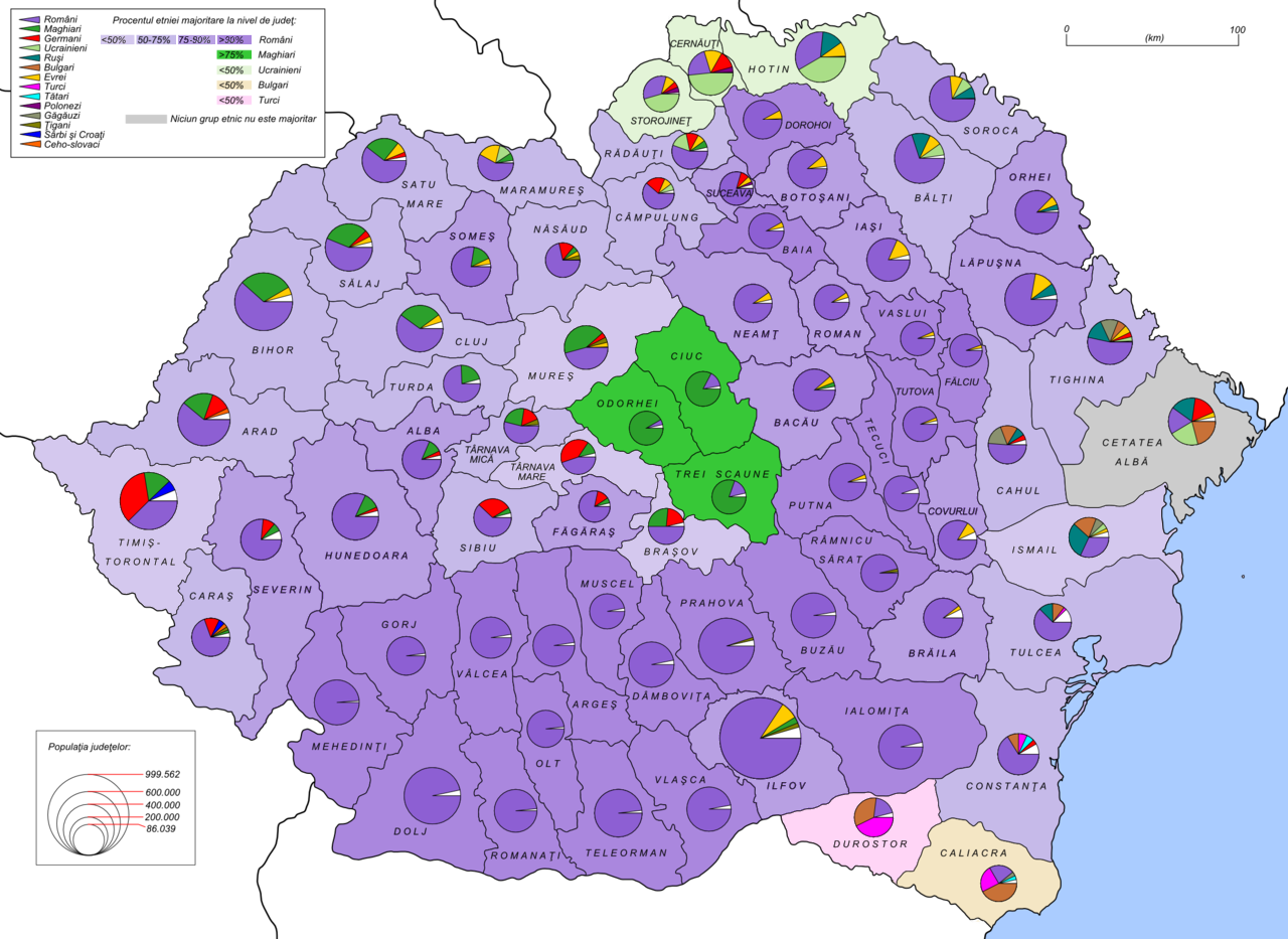 Romania_1930_ethnic_map.